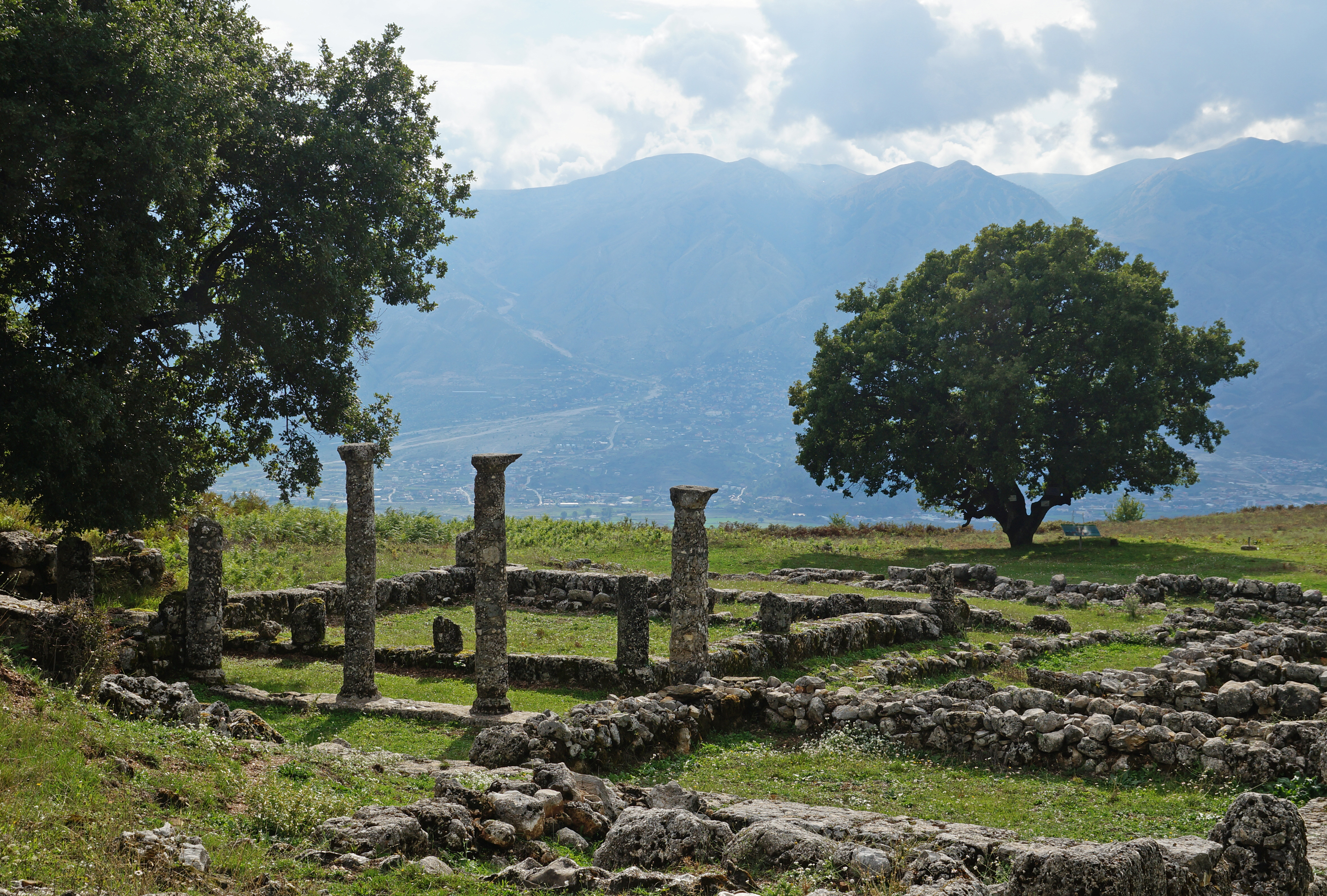 Antigonea, Southern Albania: ruins of an illyrian house with peristyle